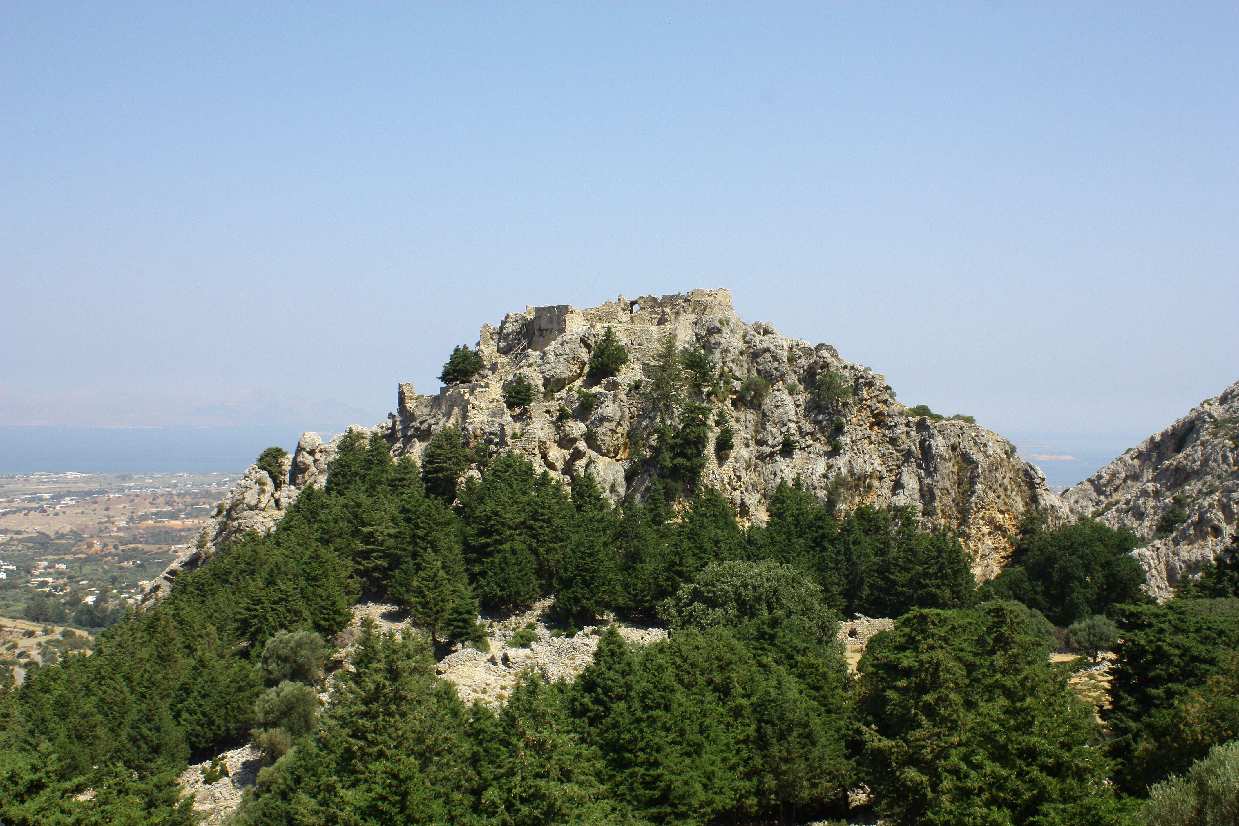 This is a photography of Natura 2000 protected area with ID GR4210008